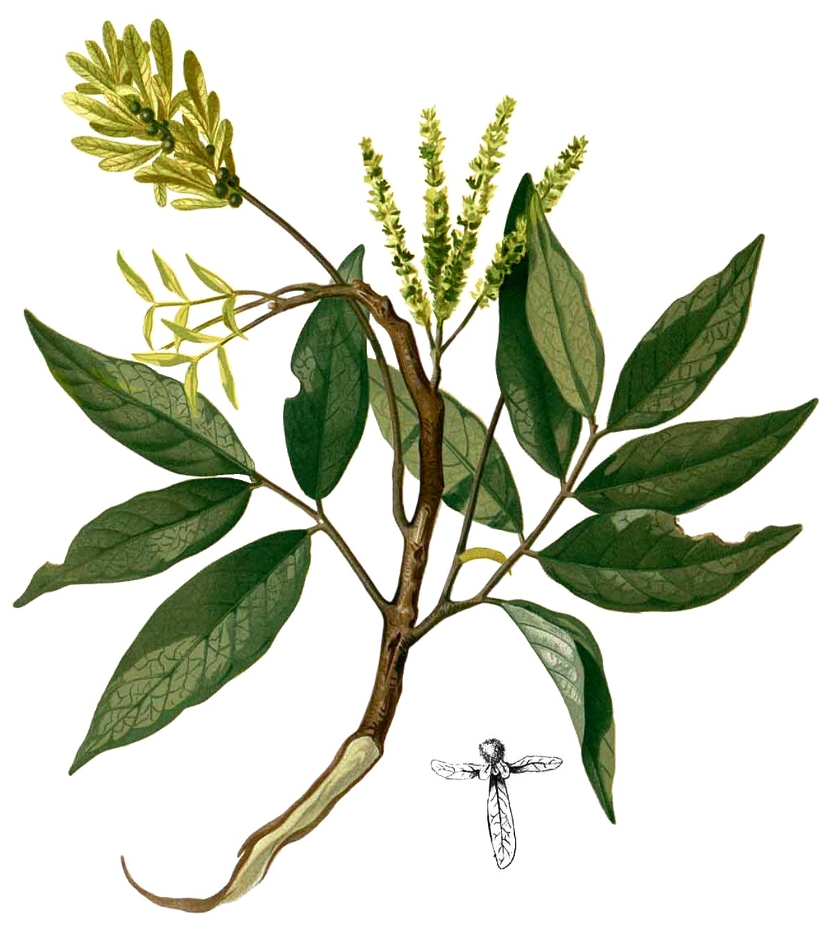 Plate from book